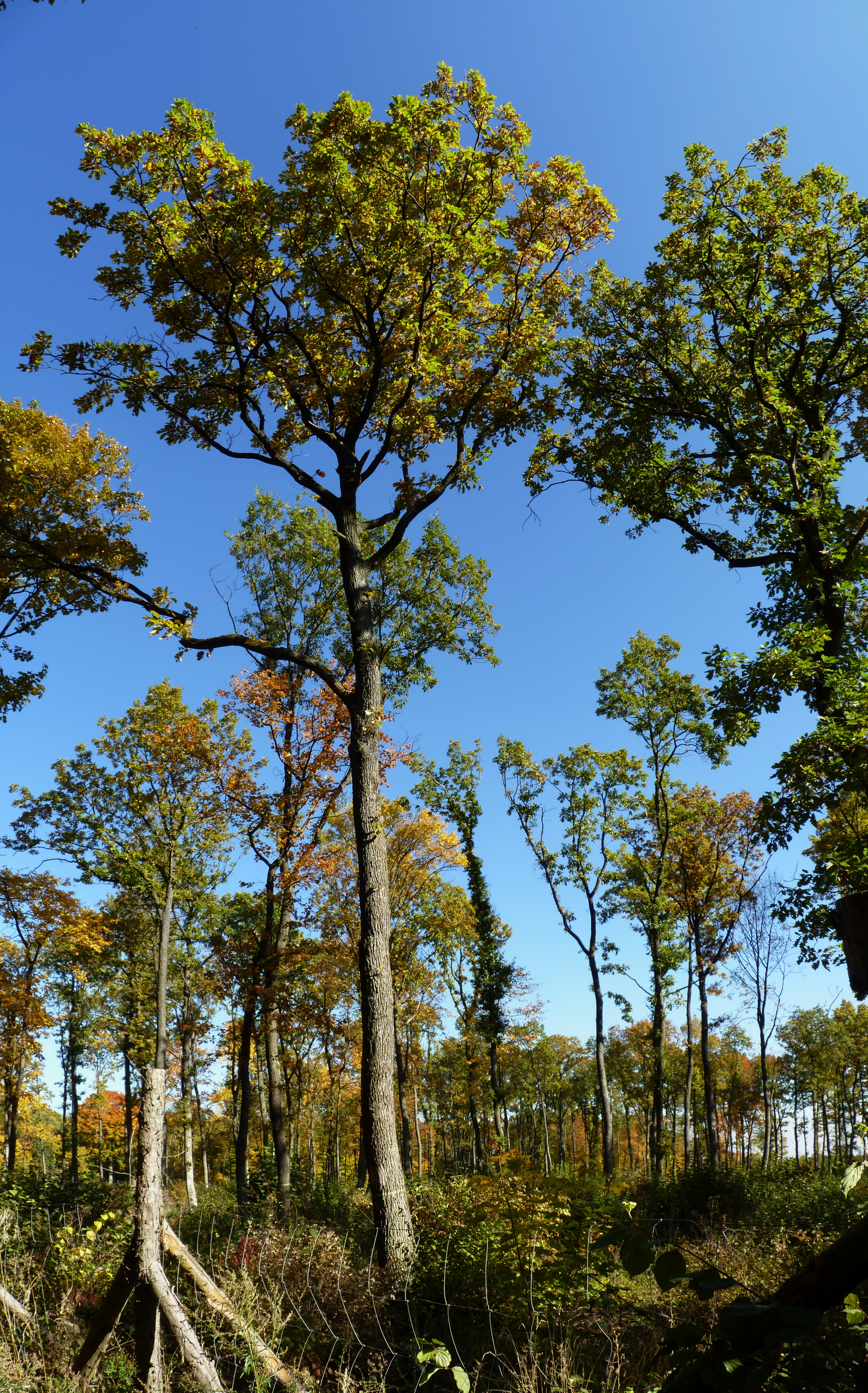 National natural reserve "Hádecká Planinka" in Brno-City and Brno-Country District, South Moravian Region, Czech Republic